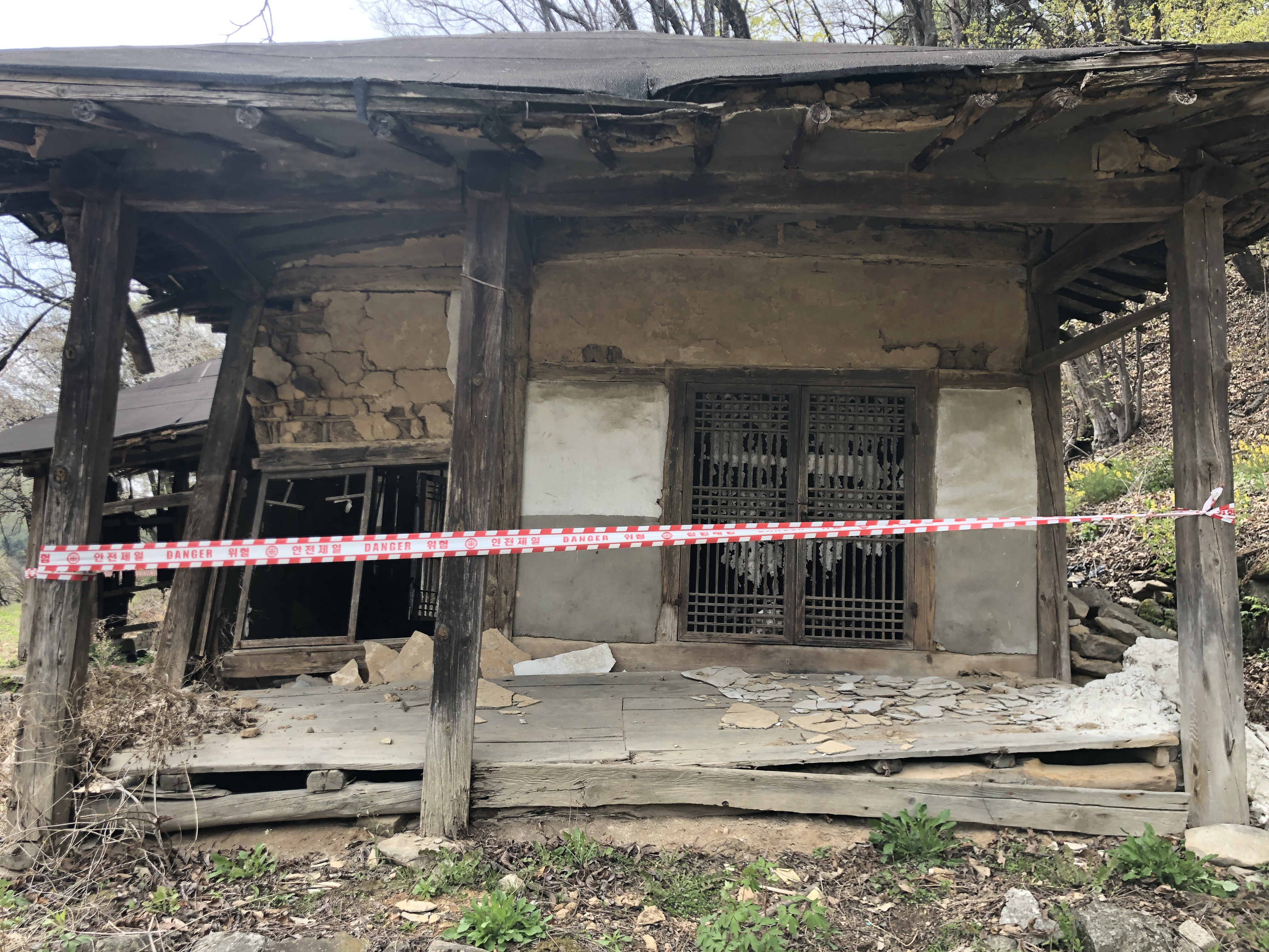 Pungsuwon Catholic Church, April 22, 2020